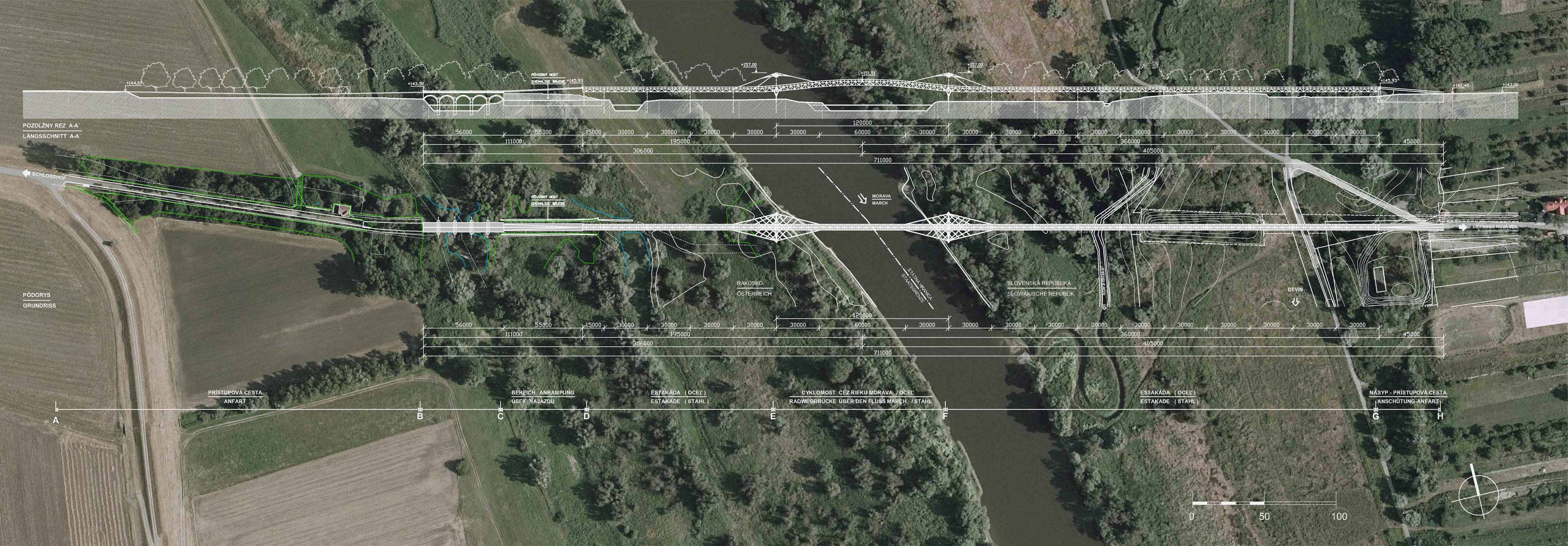 Cyklomost Devínska Nová Ves - Schlosshof